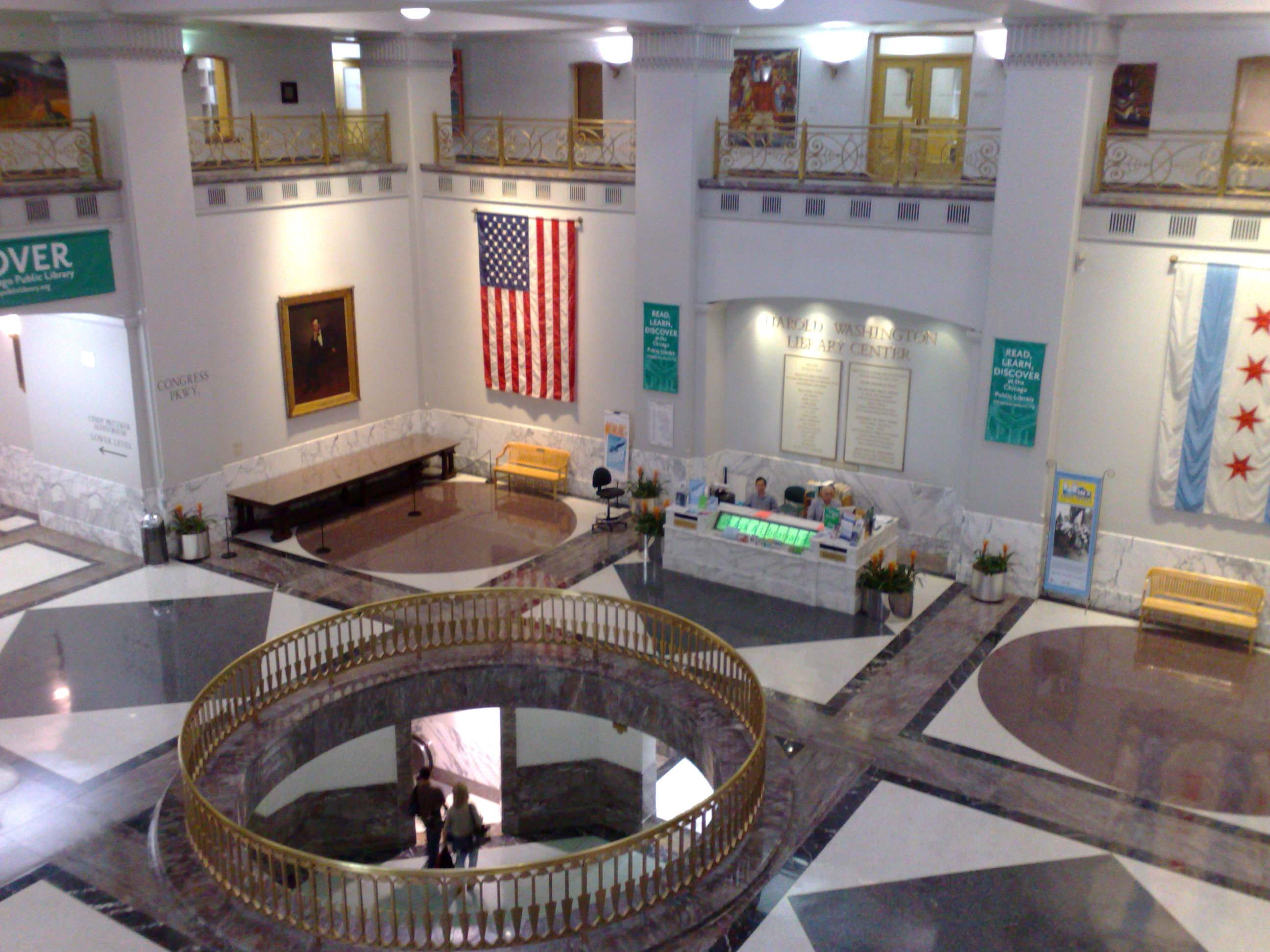 Lobby of the Harold Washington Library (Chicago), view from the 2nd level.